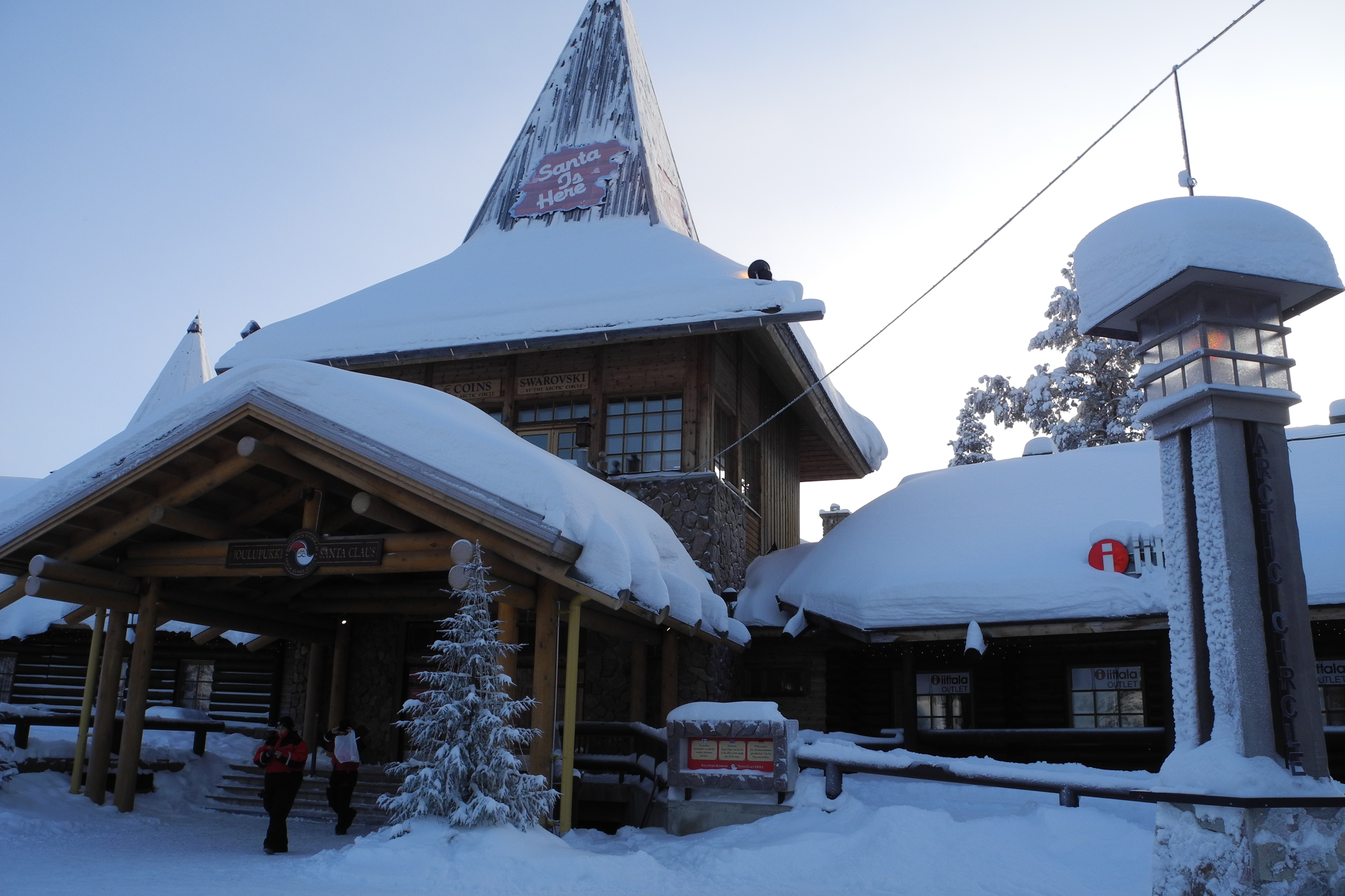 Santa Claus Village in Rovaniemi, Finland.